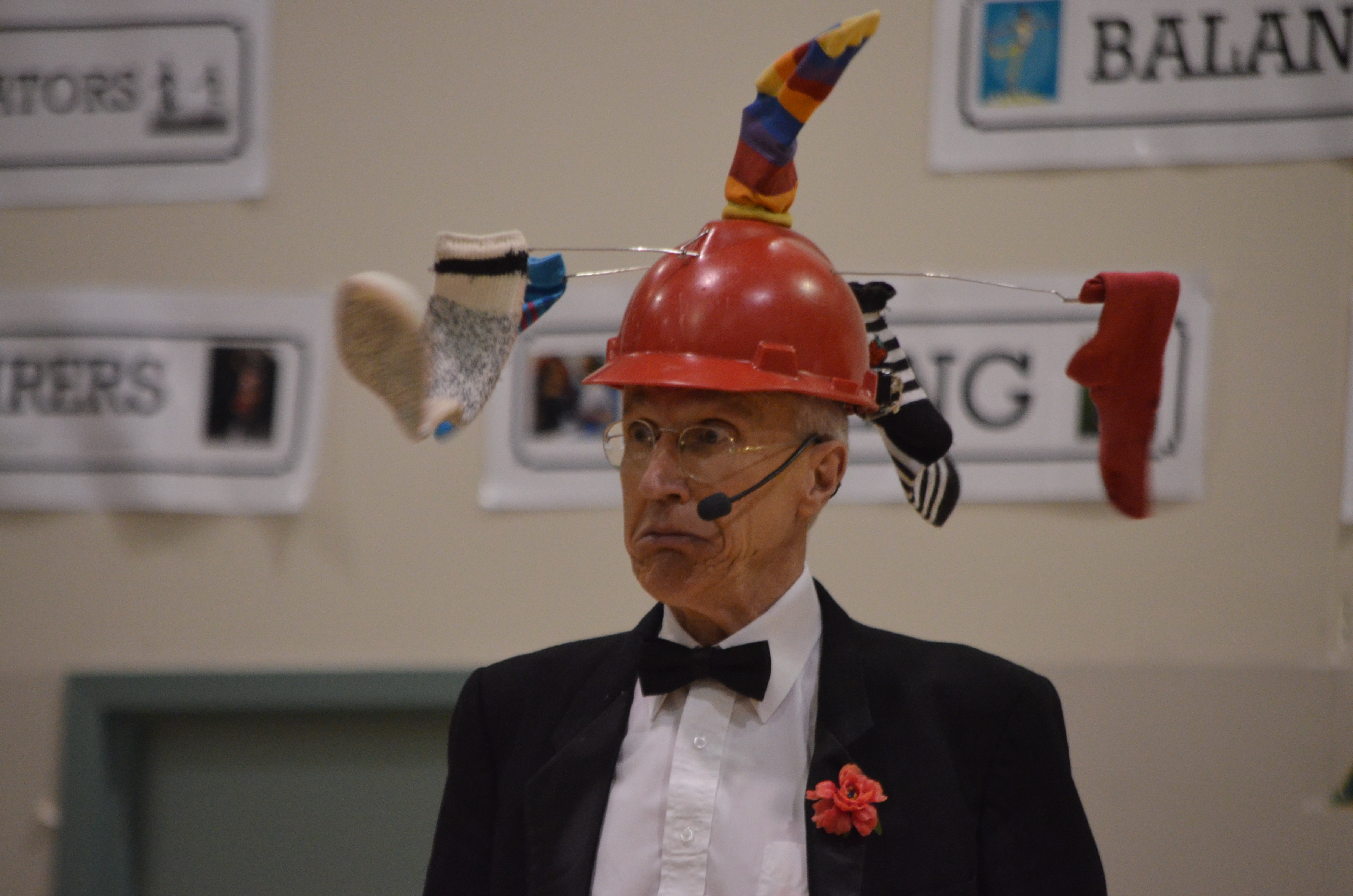 Al Simmons performing at Balmoral Hall School in 2013